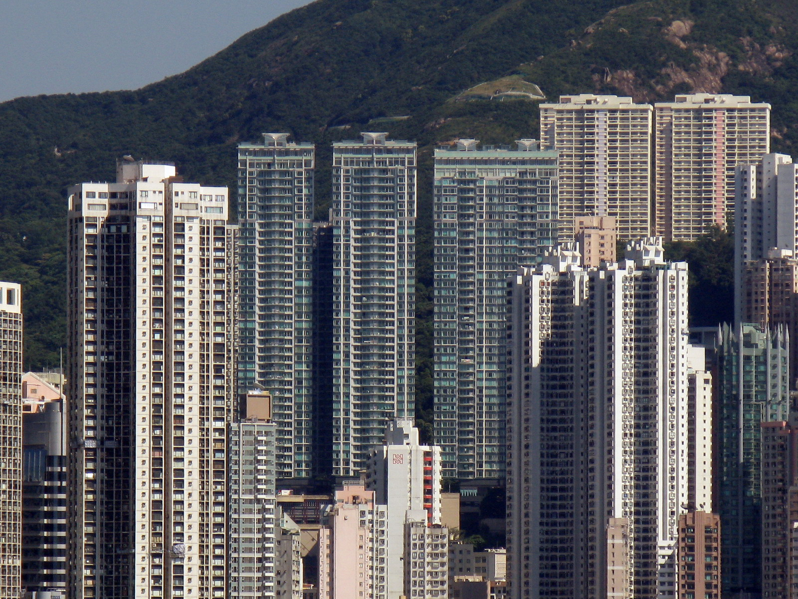 The Legend at Jardine's Lookout